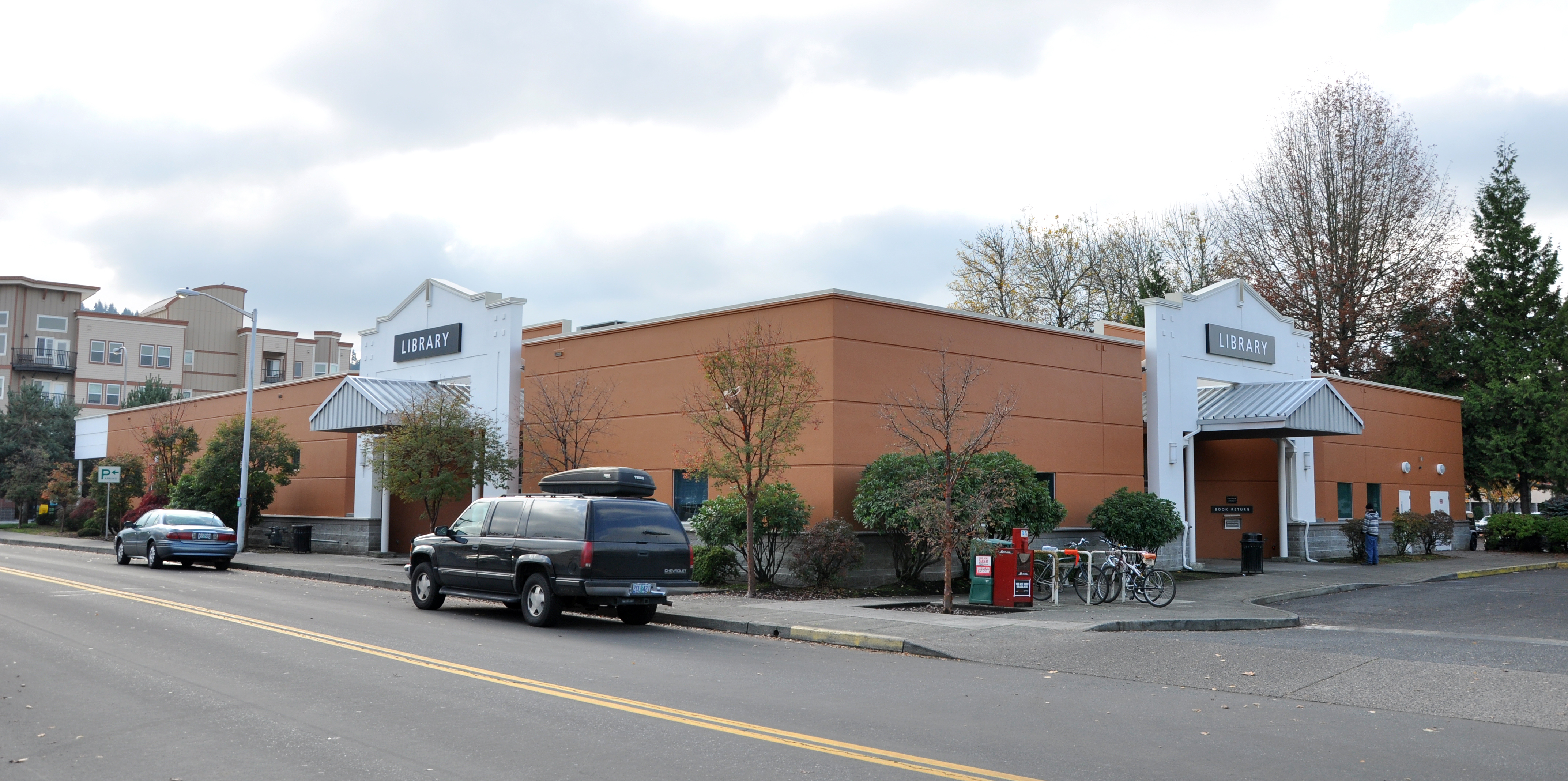 Gresham Library, a branch of the Multnomah County Library, in Portland in the U.S. state of Oregon